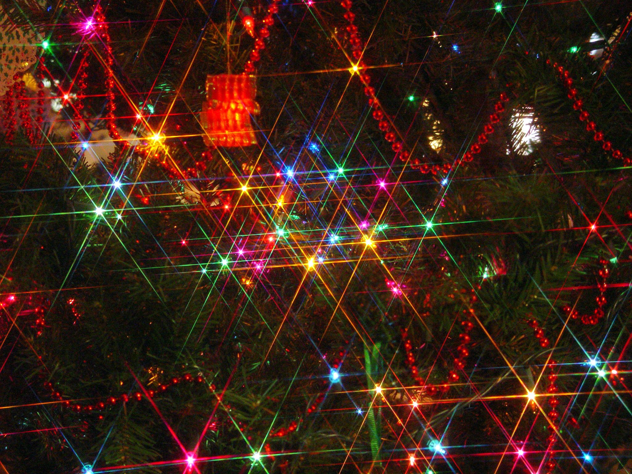 Testing out my new star filter on my parents' Christmas tree